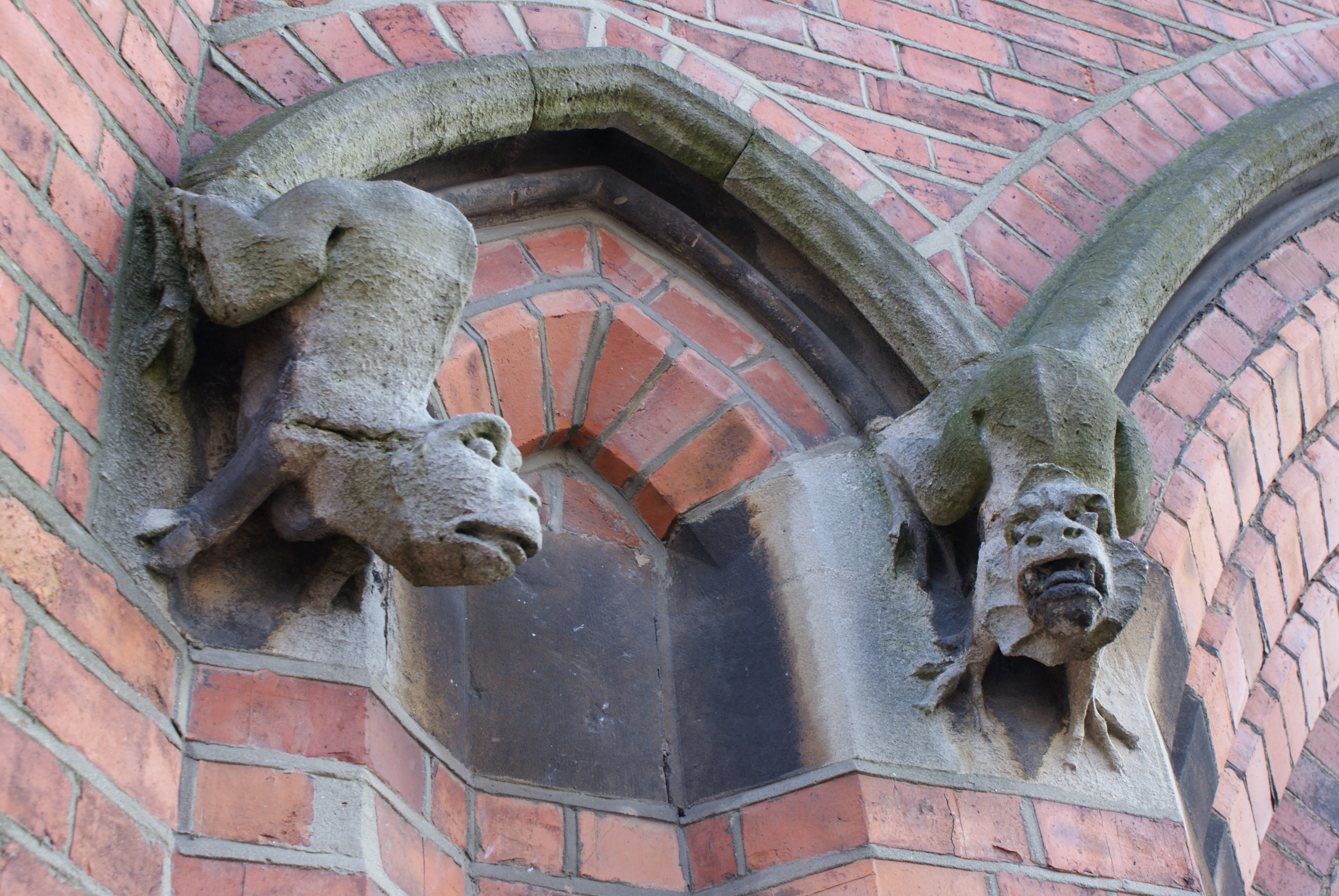 A pair of Gargolyes - Characteristic of Gothic Revival Archietecture